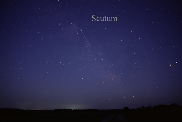 Photography of the constellation Scutum, the shield